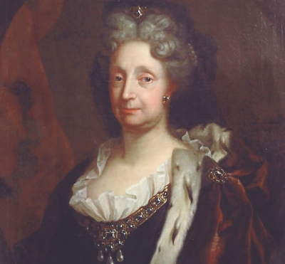 Sophia of the Palatinate (1630-1714), dowager electress of Hanover